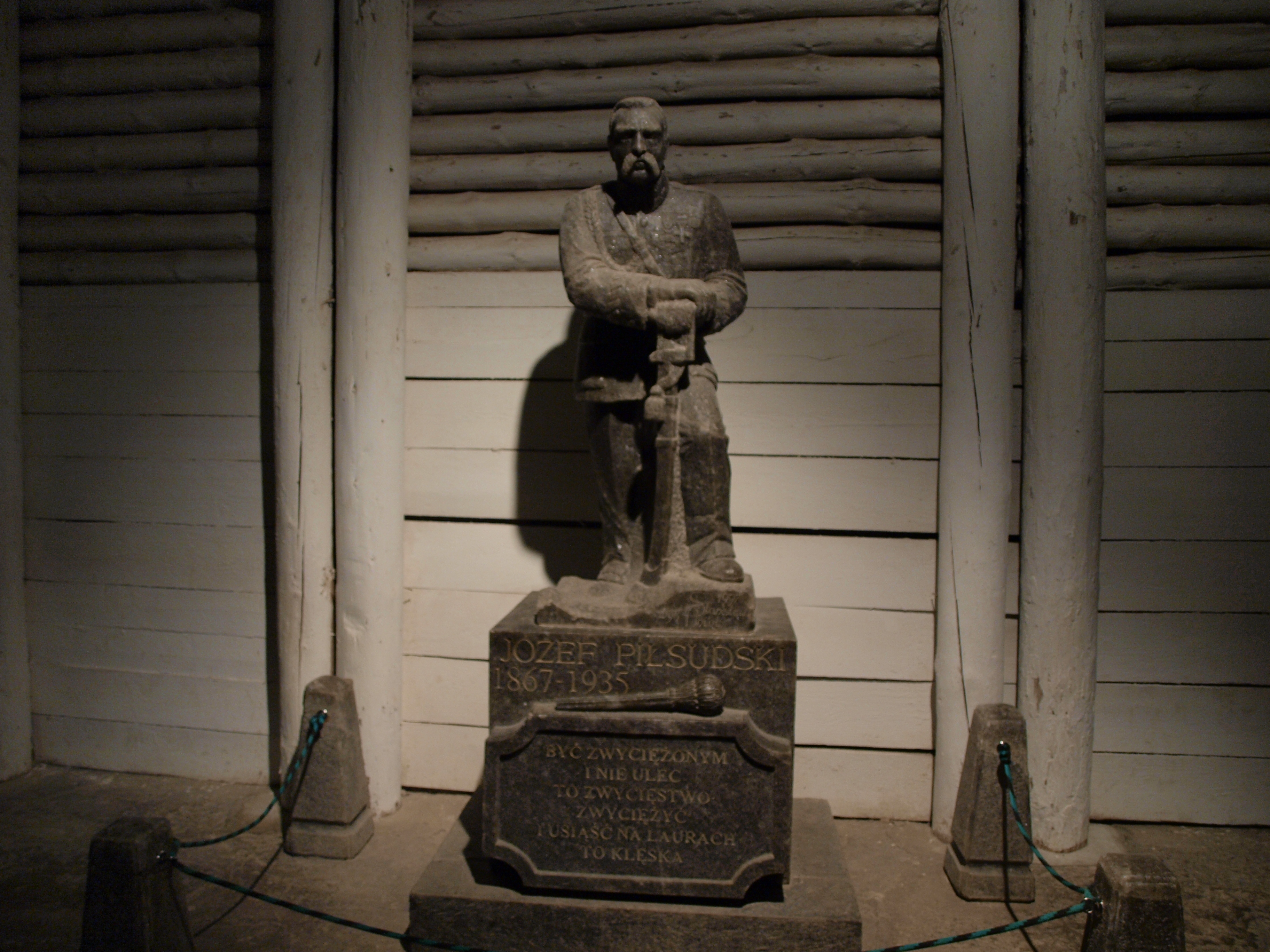 A statue of Josef Pilsudski, the marshal of Poland, made entirely from rock salt. This statue was constructed by uncredited Polish salt mine workers to honour their national hero. The photograph was taken by me.